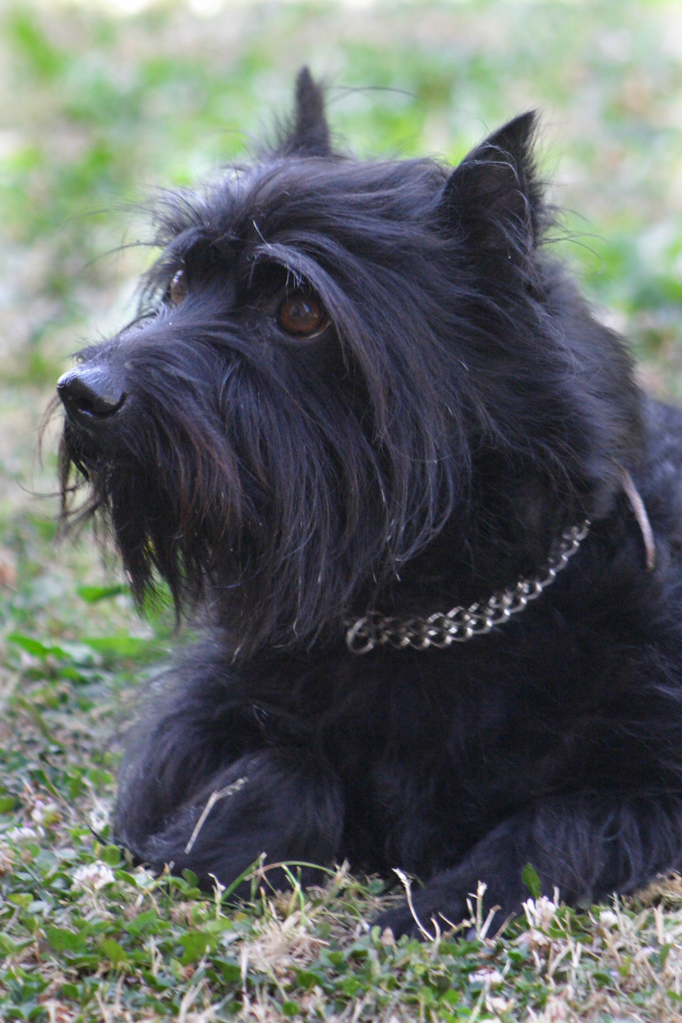 Pure-breed 9-year-old Zwergschnauzer, born in the Black Forest and raised in the Ligurian Riviera.